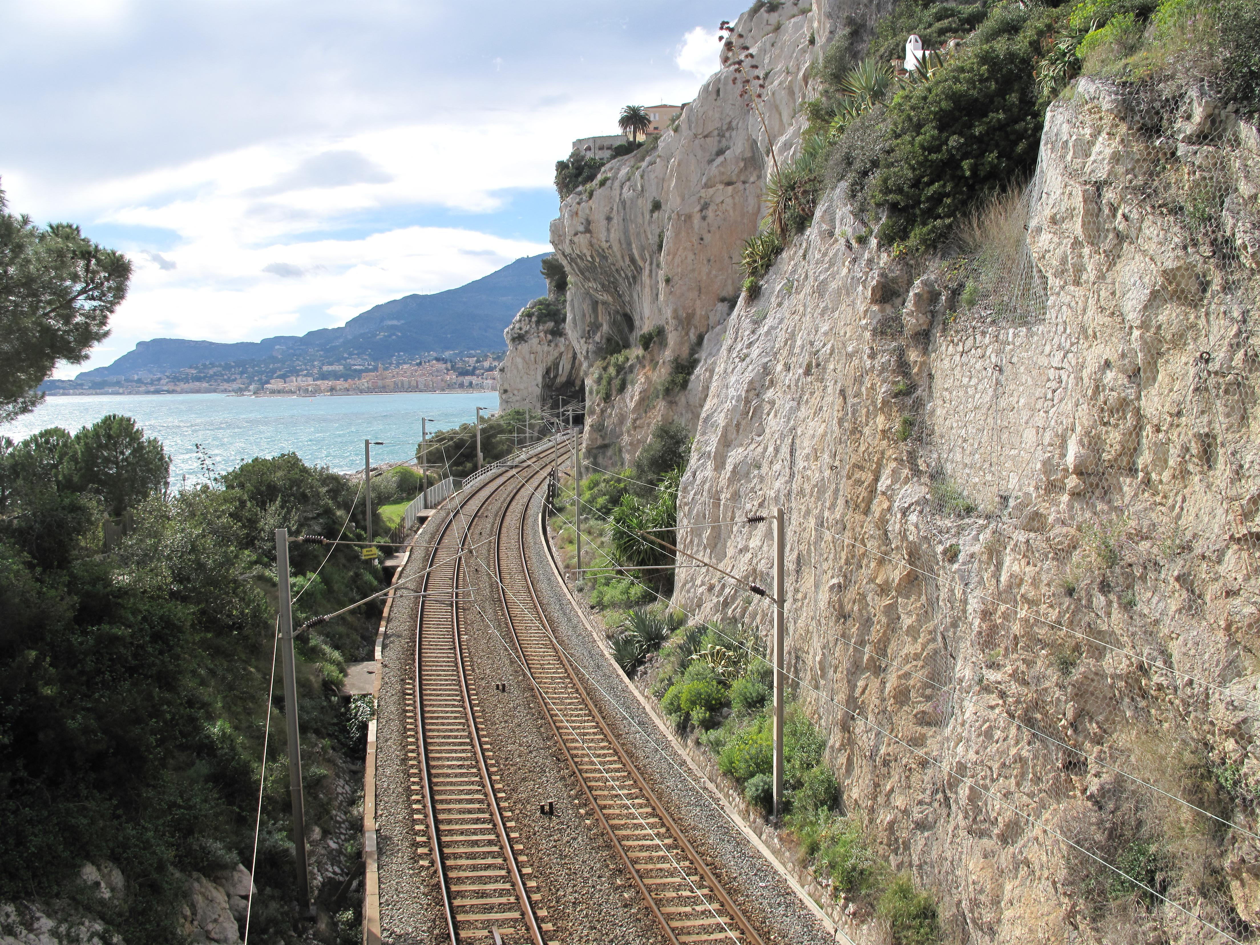 Rail track Marseille-Vintimille (Ventimiglia), in Italy, near the french border, with in the background Menton (Alpes-Maritimes, France)